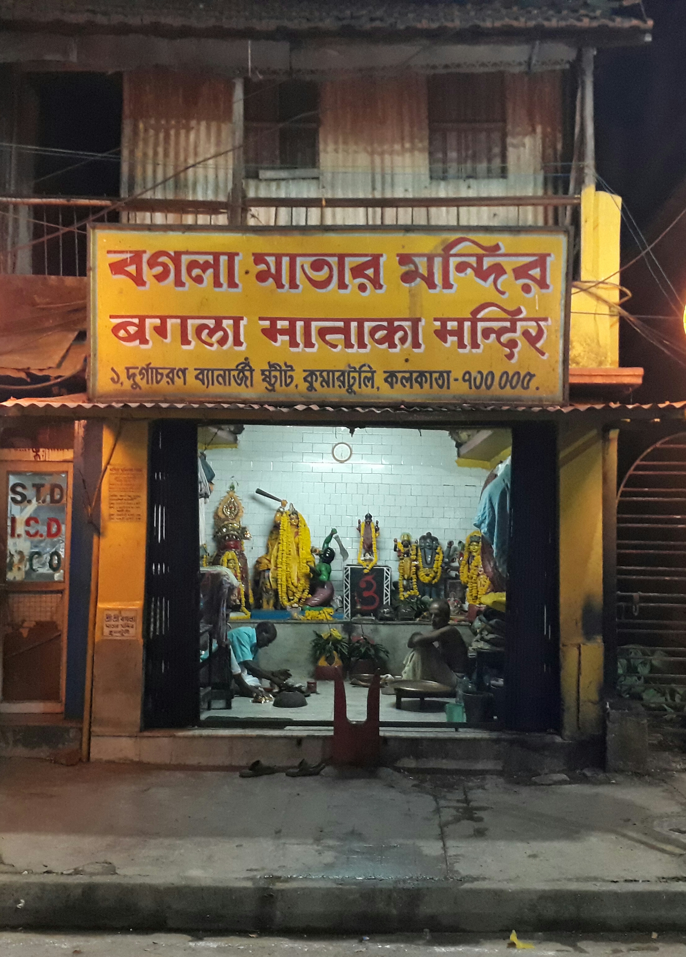 Devi Bagalamukhi Temple at Kumortuli Shobhabajar in Kolkata